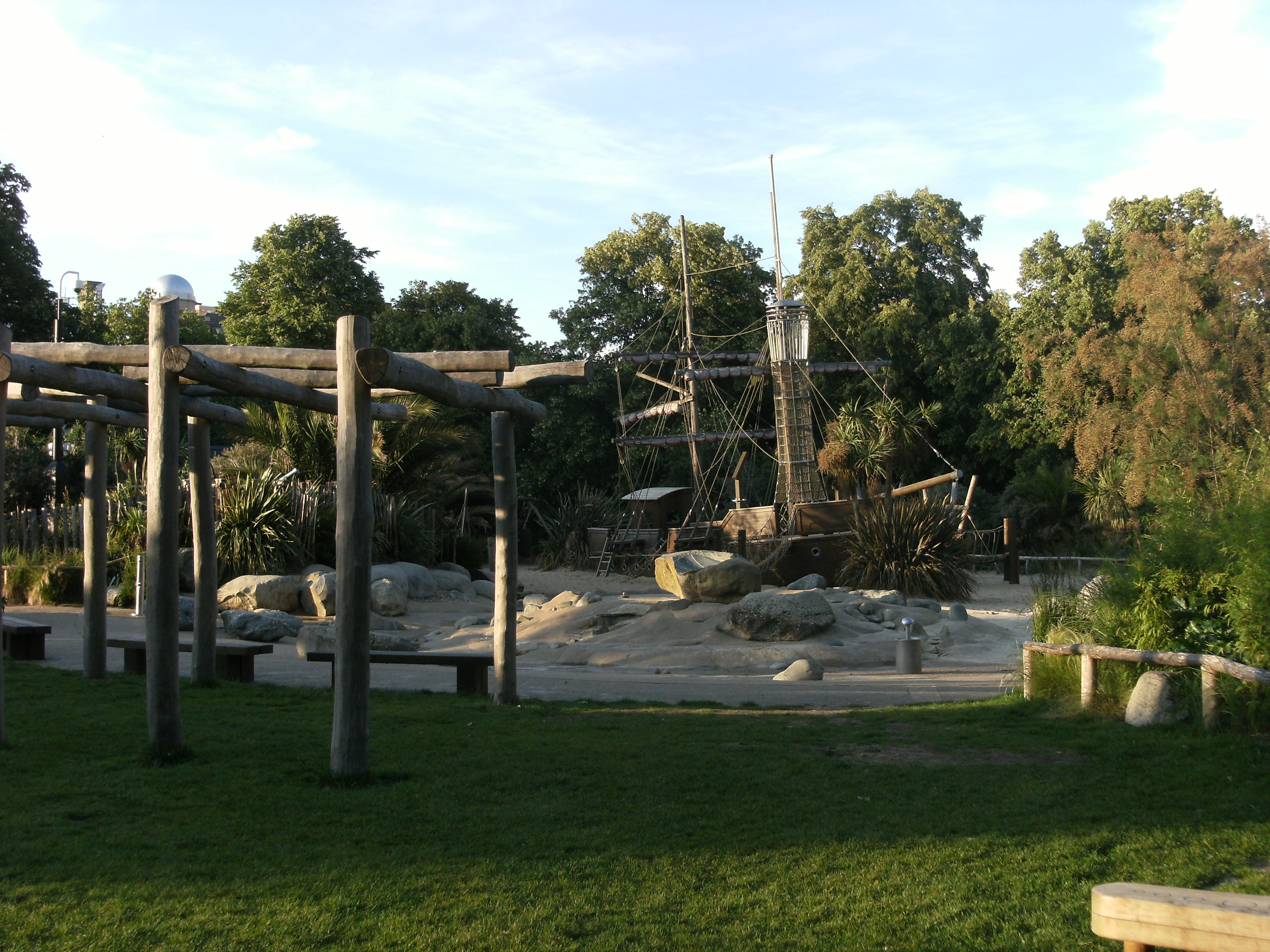 Wooden pirate ship. Diana, Princess of Wales Memorial Playground, Kensington Gardens. 2011-06-06 in London.